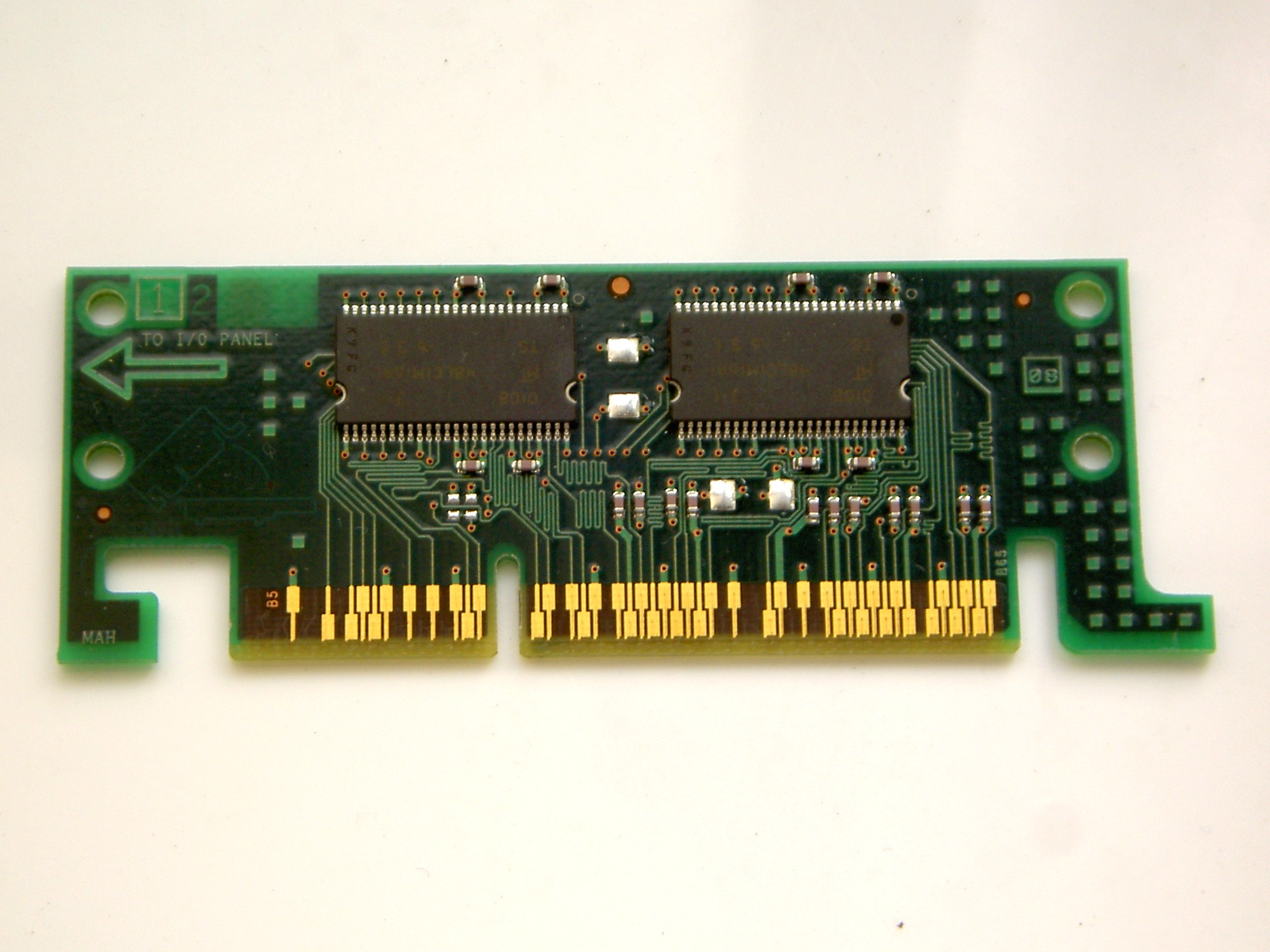 4MB AIMM for Intel 815 GMCH. (GPA Card)